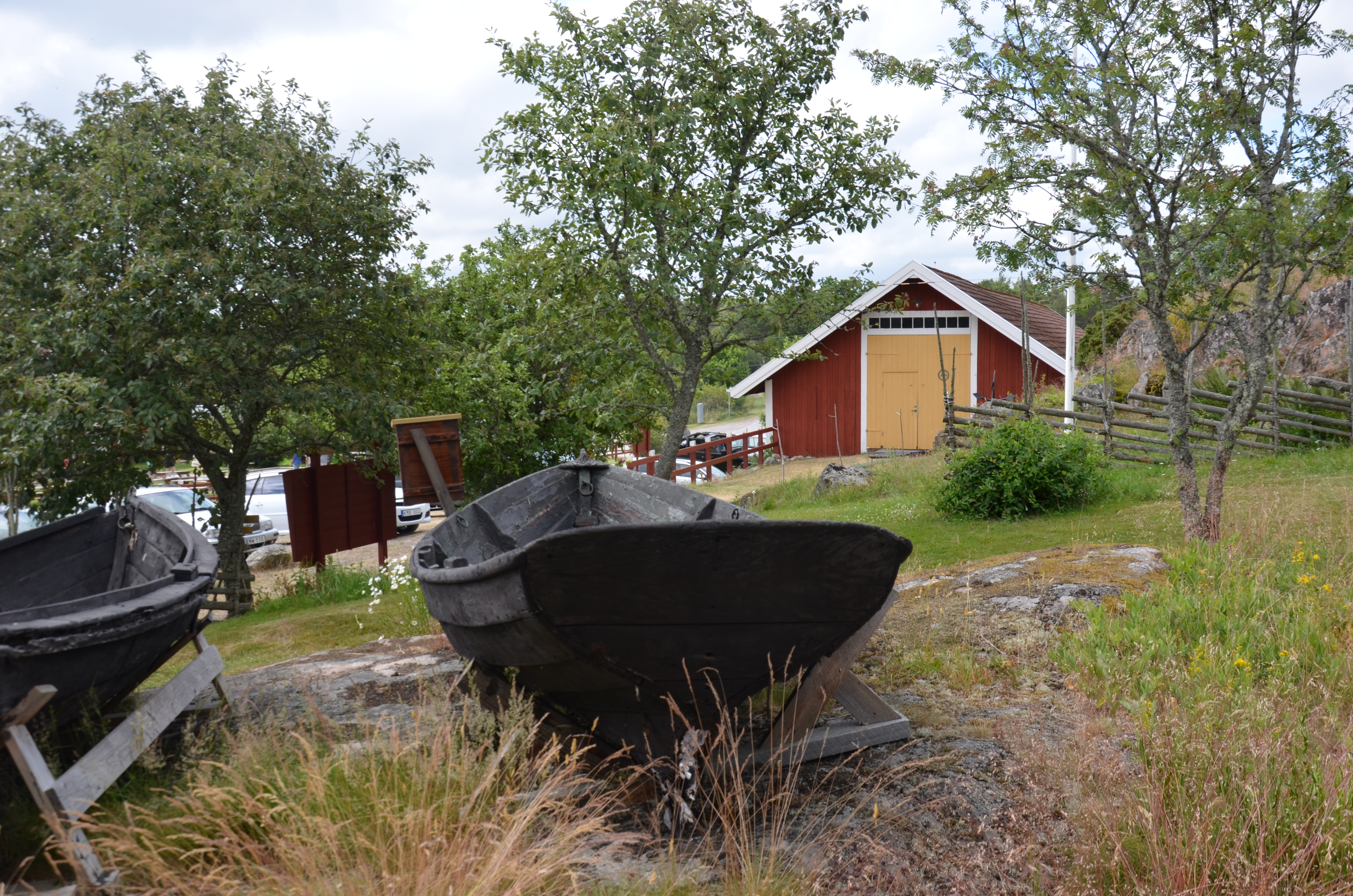 Sankt Anna skärgårdsmuseum